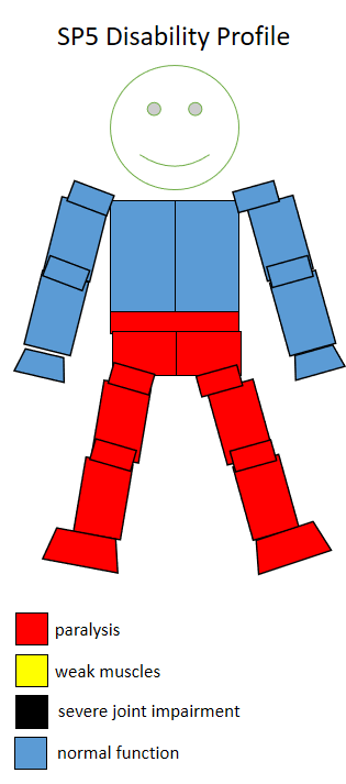 Shows F5 SP5 disability sports profile. Created using information from